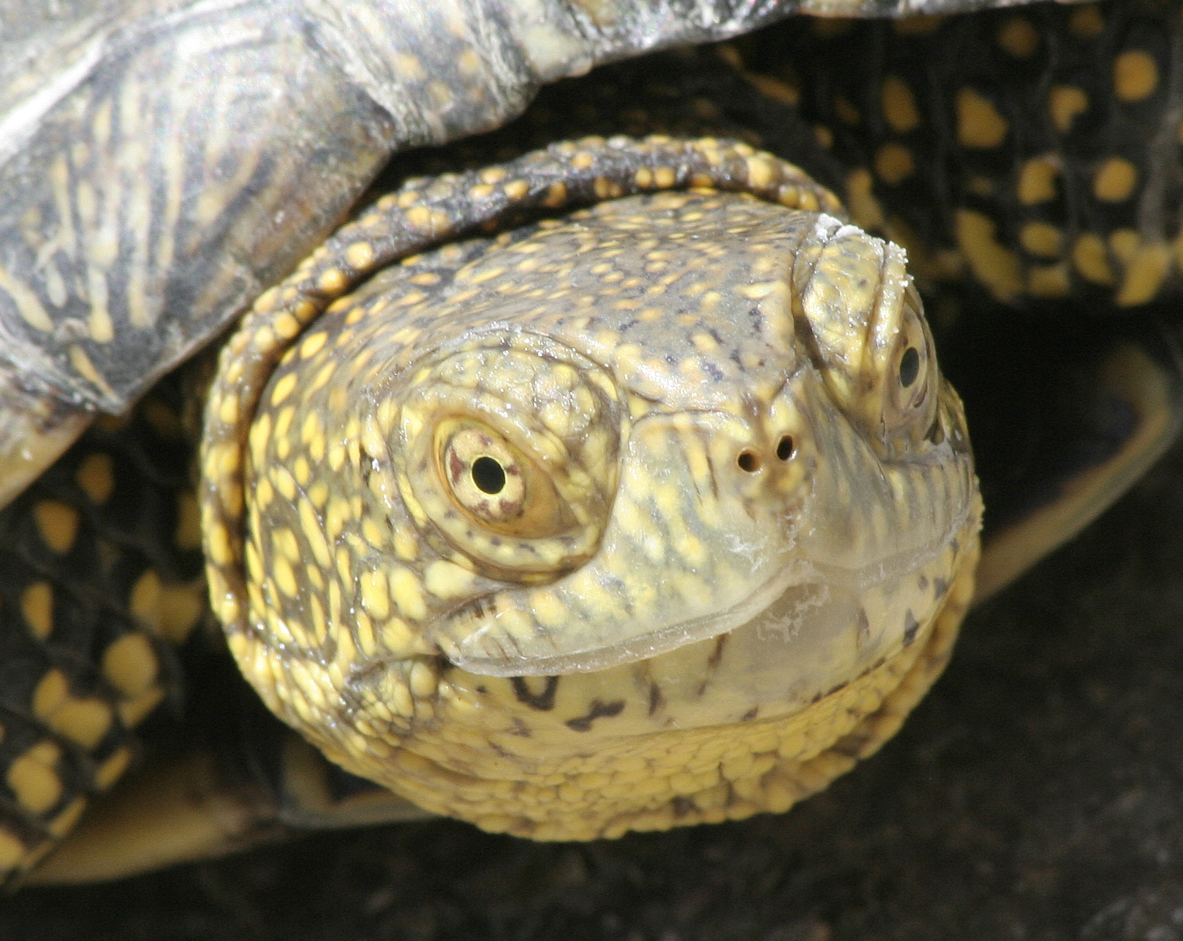 Head view of Emys Orbicularis